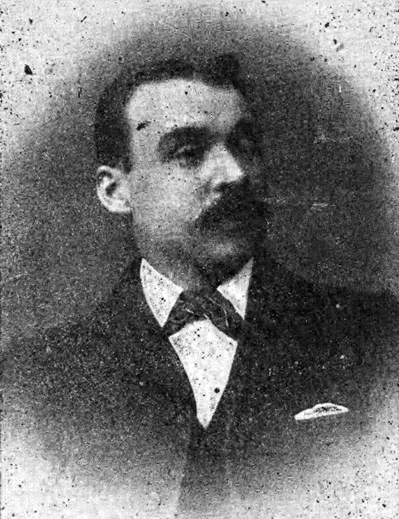 Edwin Davies (1859 - 1919) journalist and antiquarian